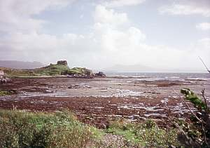 Knock Castle, Isle of skye